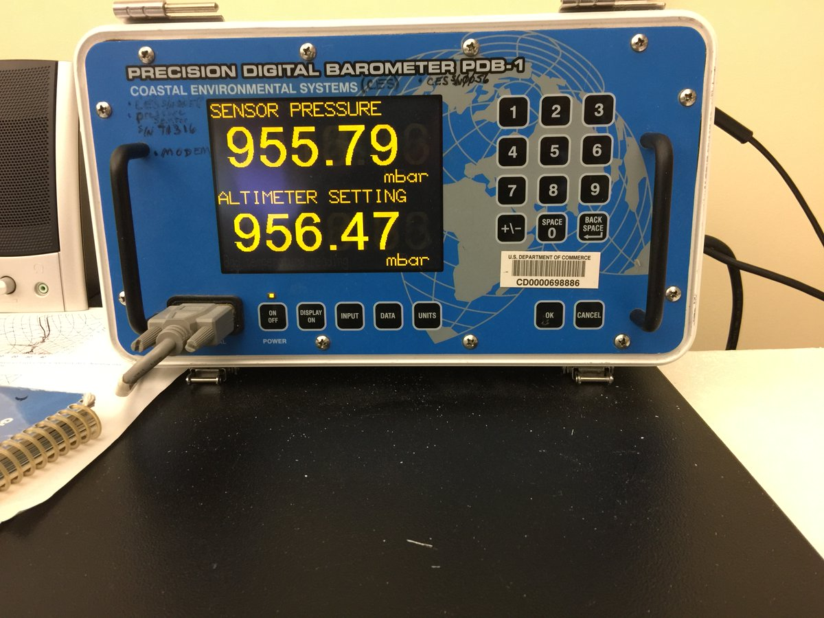 A digital barometer in the National Weather Service's local forecast office in Key West, Florida as Hurricane Irma approached the lower Keys on the morning of Sunday, September 10, 2017. Photo tweeted by the office's official account with the following text: "8AM: Pressure continues to drop as the eye of #Irma moves into the Lower Keys."